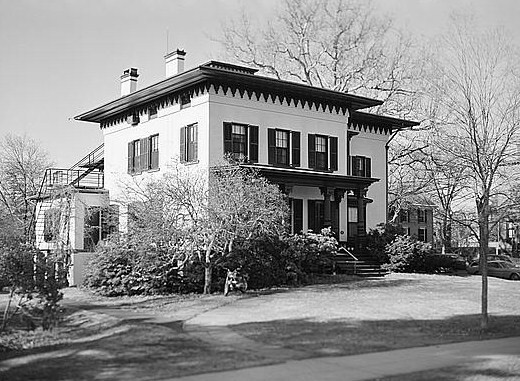 James Dwight Dana House, 24 Hillhouse Avenue, New Haven (New Haven County, Connecticut). 1967 photo from the HABS—Historic American Buildings Survey of Connecticut (cropped).